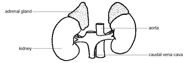 By Ruth Lawson. Otago Polyetchnic.